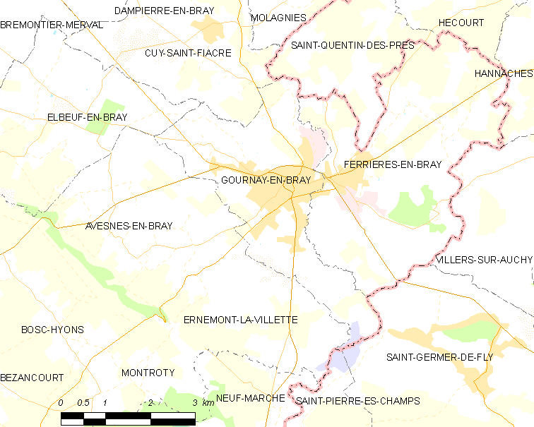 Map of French municipality Gournay-en-Bray